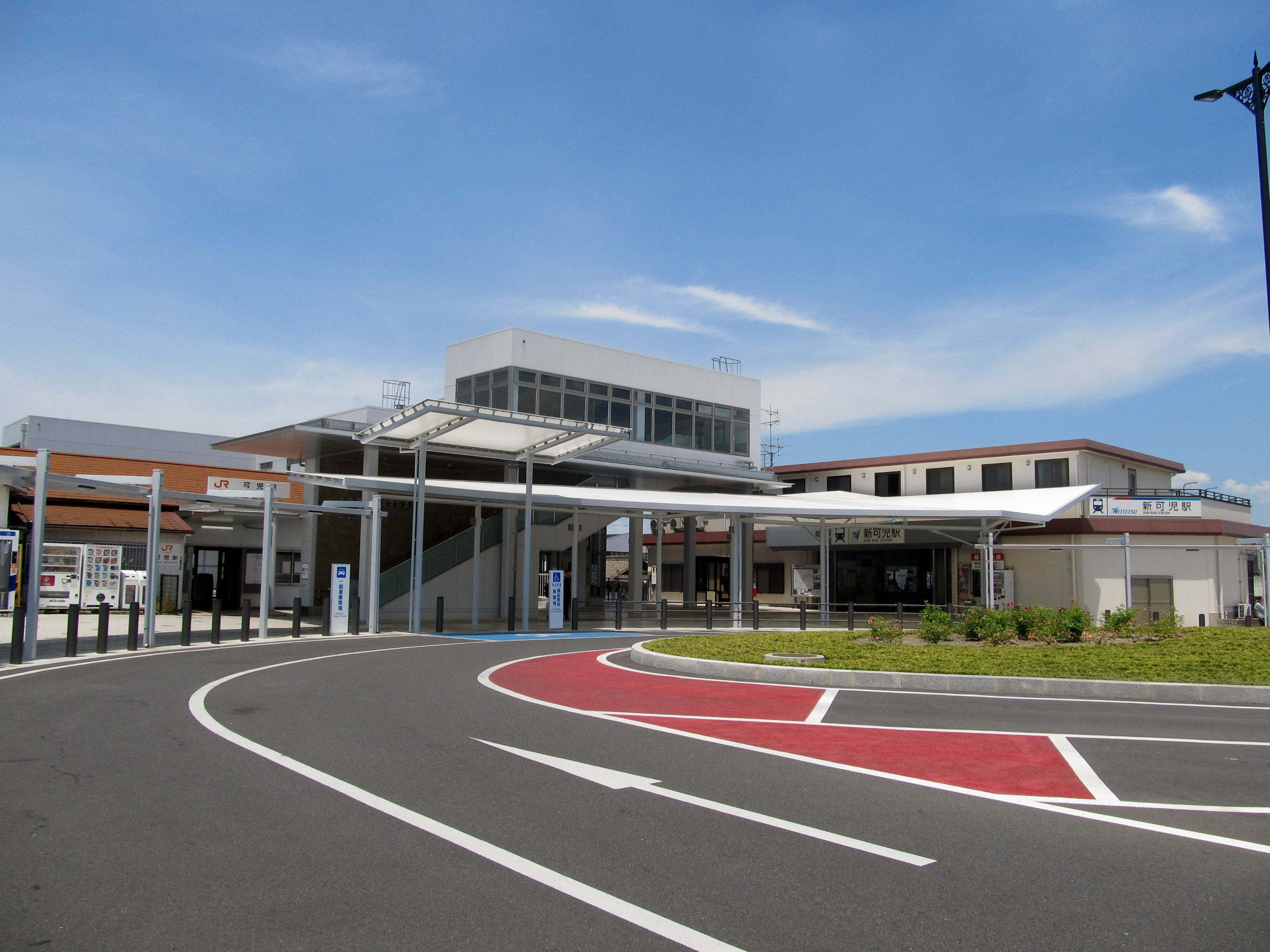 (Left) Central Japan Railway Taita Line Kani Station. (Right) Nagoya Railroad Hiromi Line Shin Kani Station.